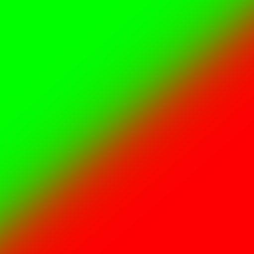 Logistic regression model space for file "Gaussian training data"